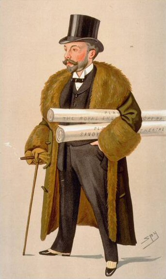 Caricature of Richard D'Oyly Carte. Caption read "Royal English Opera".